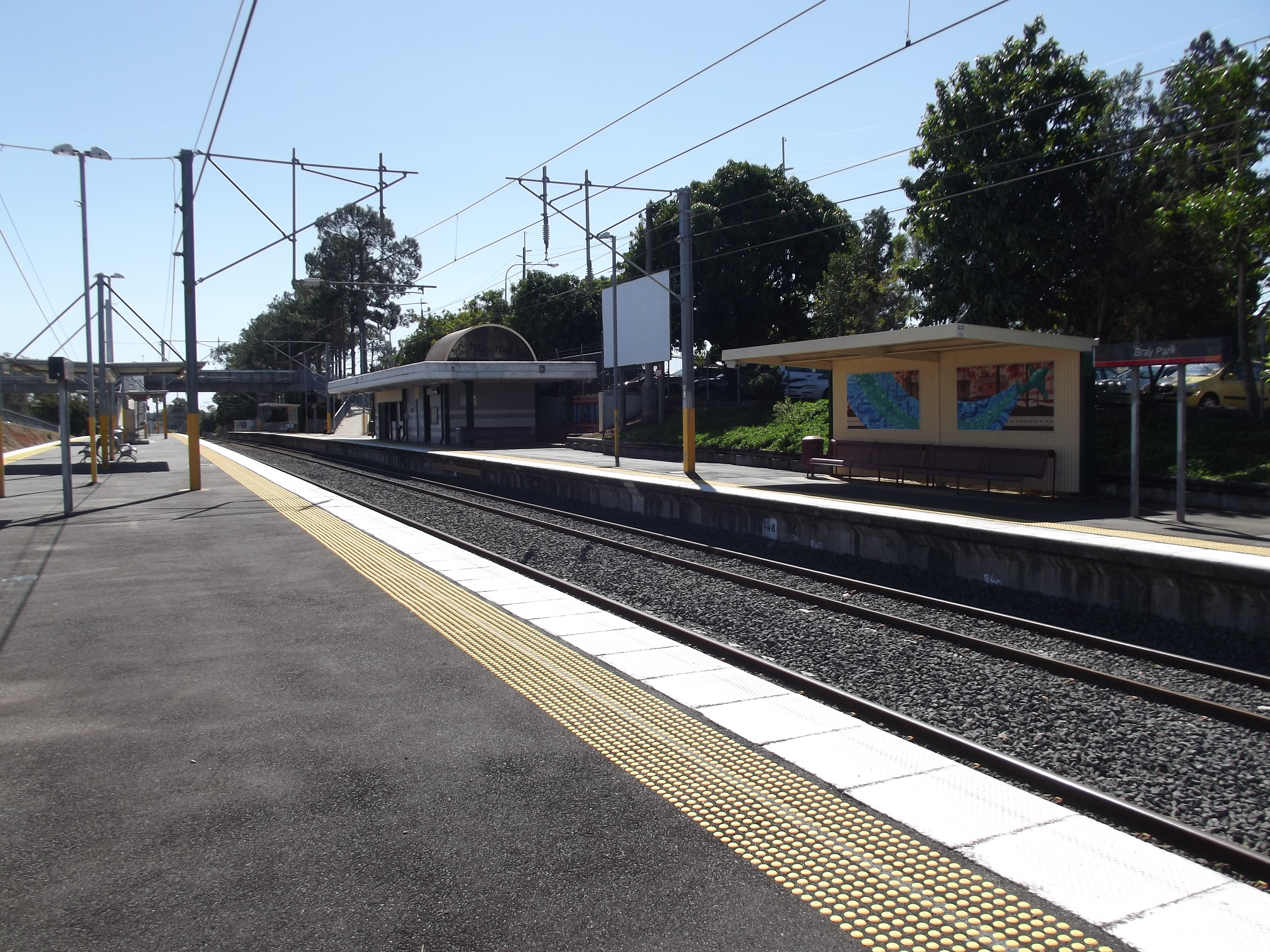 Bray Park station, on the Caboolture line.